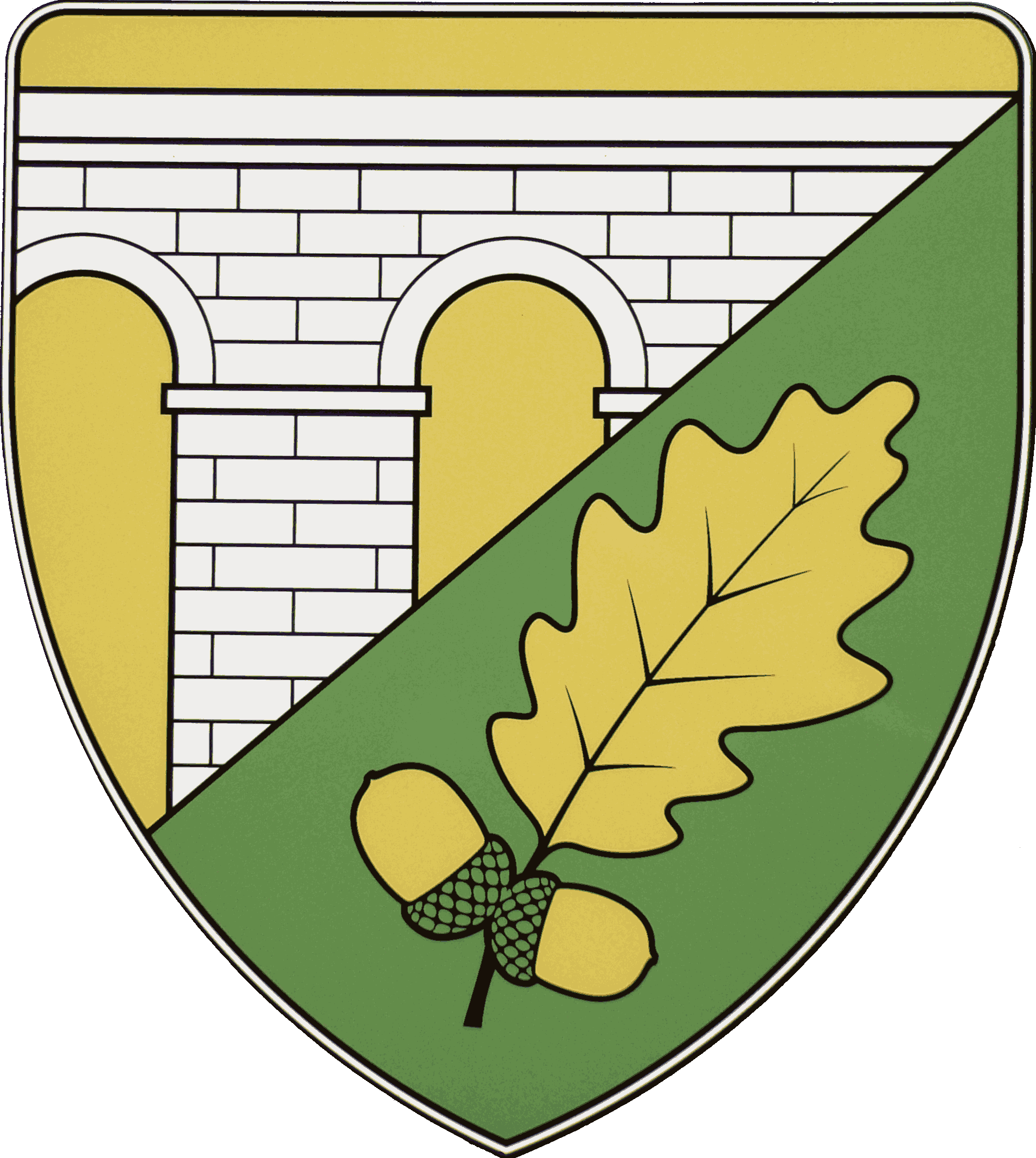 Coat of arms of Eichgraben, Lower Austria